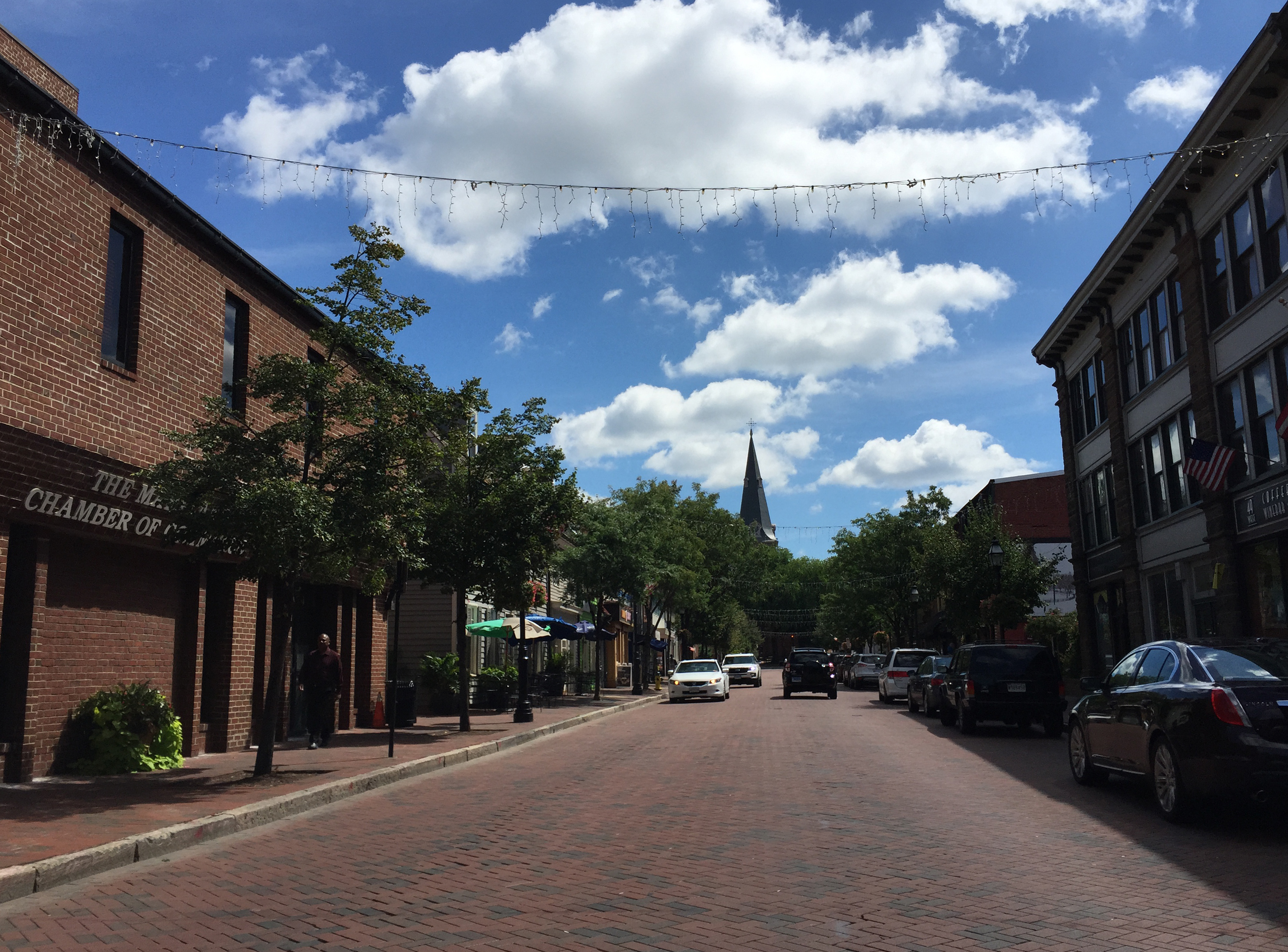 View east along Maryland State Route 450 (West Street) at Cathedral Street in Annapolis, Anne Arundel County, Maryland